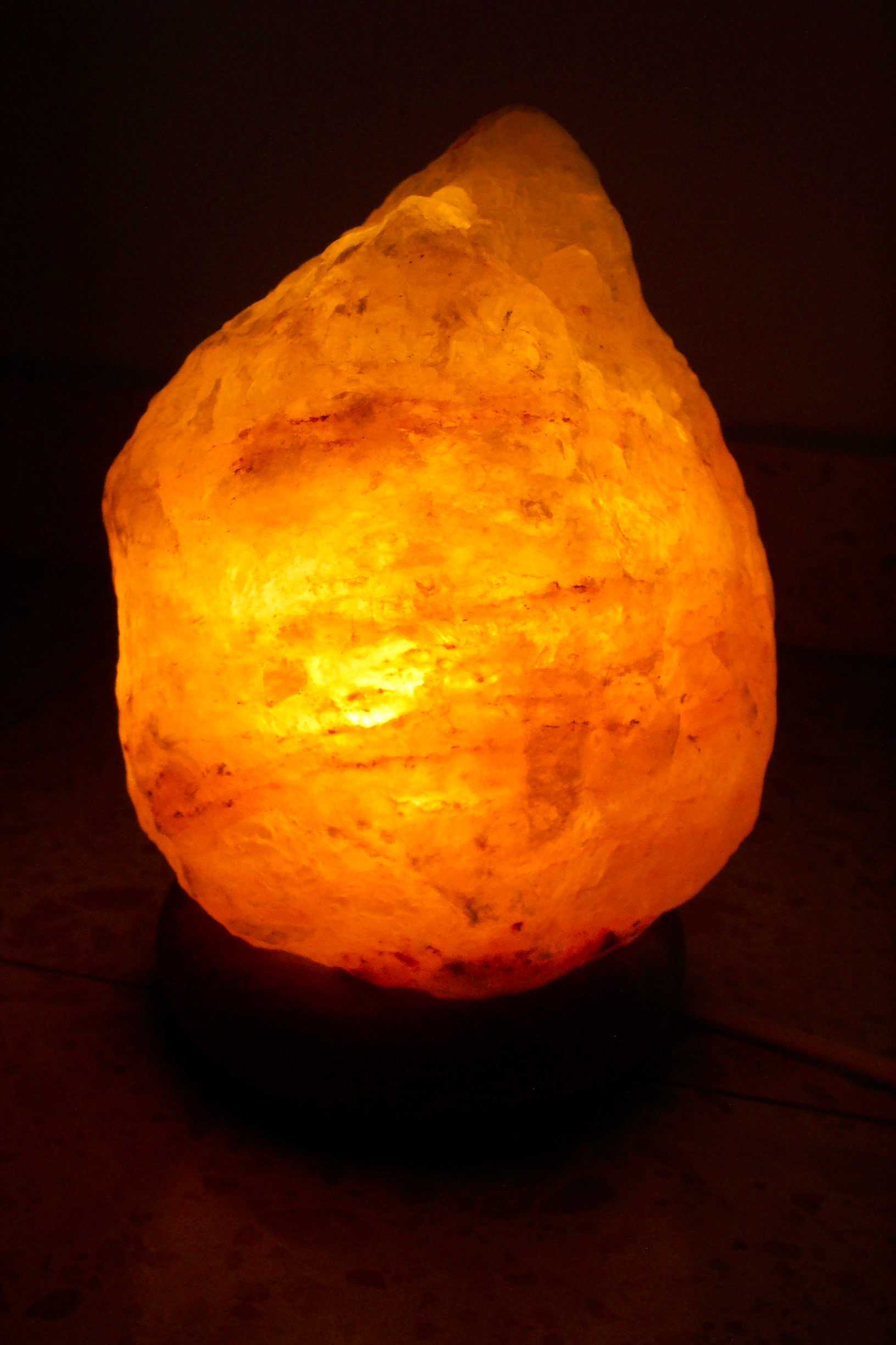 Stones in Israel